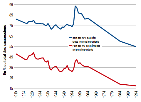 The share of the top 1% and 10% inheritance in the total inherited wealth in France (1919 - 1994). Data from Thomas Piketty "Les hauts revenus en France au XXème siècle", Grasset, 2001 available on this site